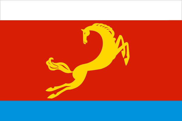 Flag of Kanevskoy rayon, Krasnodar Krai, Russia